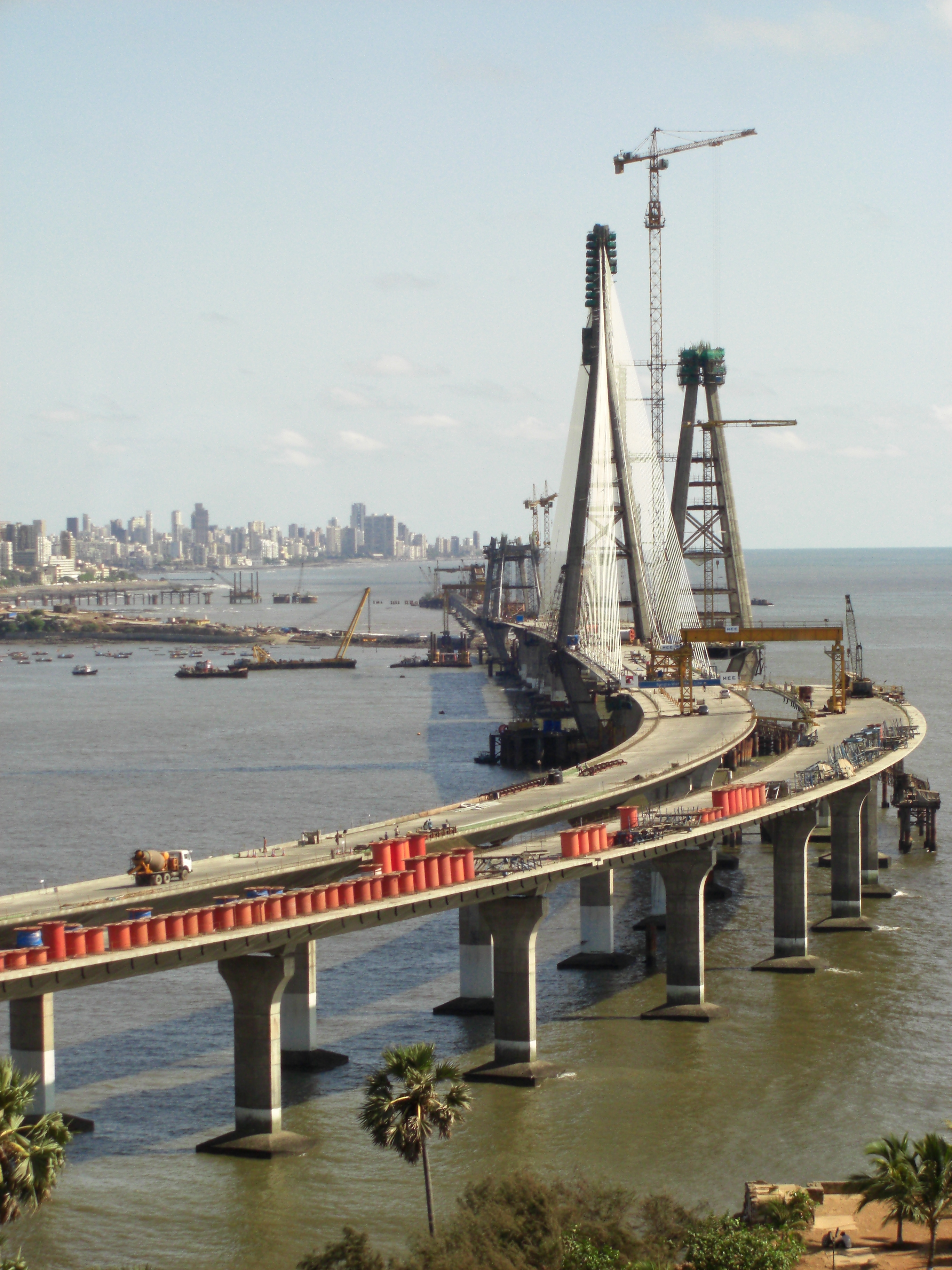 The Bandra Worli Sea Link will be a 8-lane, cable-stayed bridge with pre-stressed concrete viaduct approaches, which will link Bandra and the western suburbs of Mumbai with Worli and central Mumbai, and is the first phase of the proposed West Island Freeway system. Seen under construction from the Taj Landsend Hotel